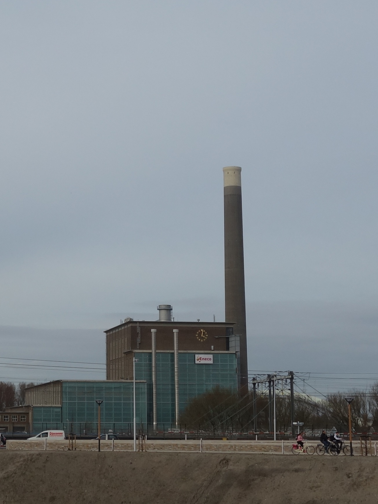 Eneco power station Utrecht, 2017